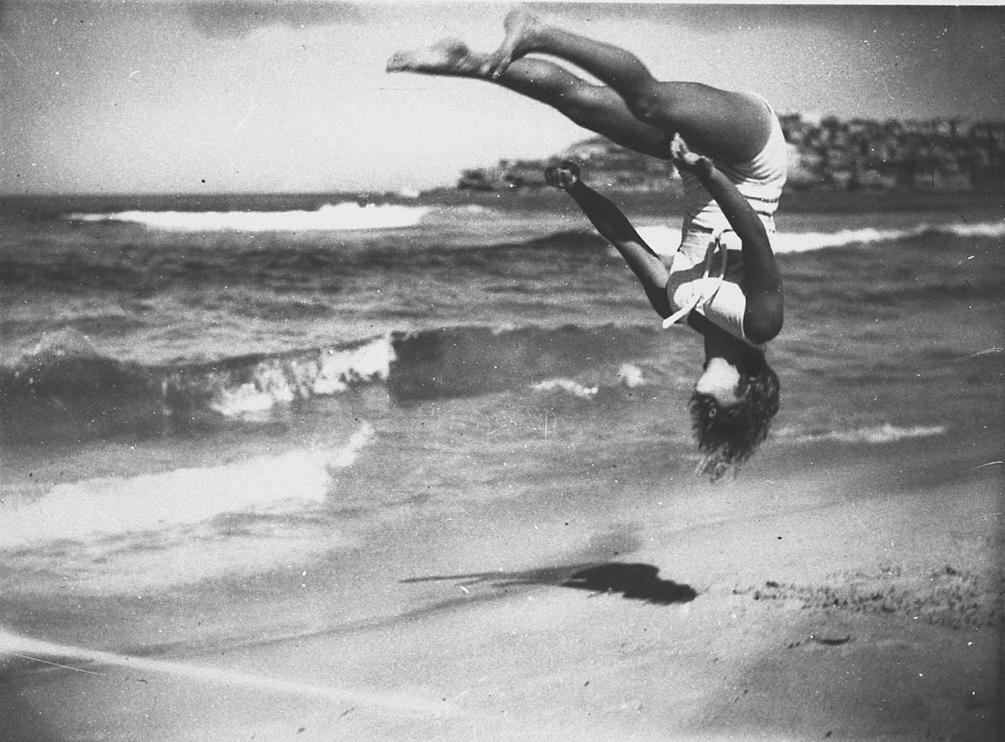 Format: Film photonegative (copied from original nitrate photonegative) Notes: Reproduced in Sydney Exposures... [by] Alan Davies (1991), p. 122-123 Another photograph from series reproduced "Australasian", 13/2/1937. Sydney Exposures book and exhibtion caption: Back flip on the beach, Bondi, 6 February 1937 : Peggy Bacon of Bondi, one of a troupe of girls who did pyramid stands on the beach, does a backflip for the photographer. Friend of Ted Hood, Di Taylor (not pictured here) was also one of the group who formed athletic "pyramids" supported by North Bondi life savers. View more incredible photographs by visiting the State LIbrary of NSW exhibition, Bondi Jitterbug: George Caddy and his Camera. Open in Sydney until 22 February 2009 - highlights on the State Library's website. From the collections of the Mitchell Library, State Library of New South Wales Information about photographic collections of the State Library of New South Wales: .au/search/SimpleSearch.aspx Persistent url: .au/item/itemDetailPaged.aspx?itemID=19451